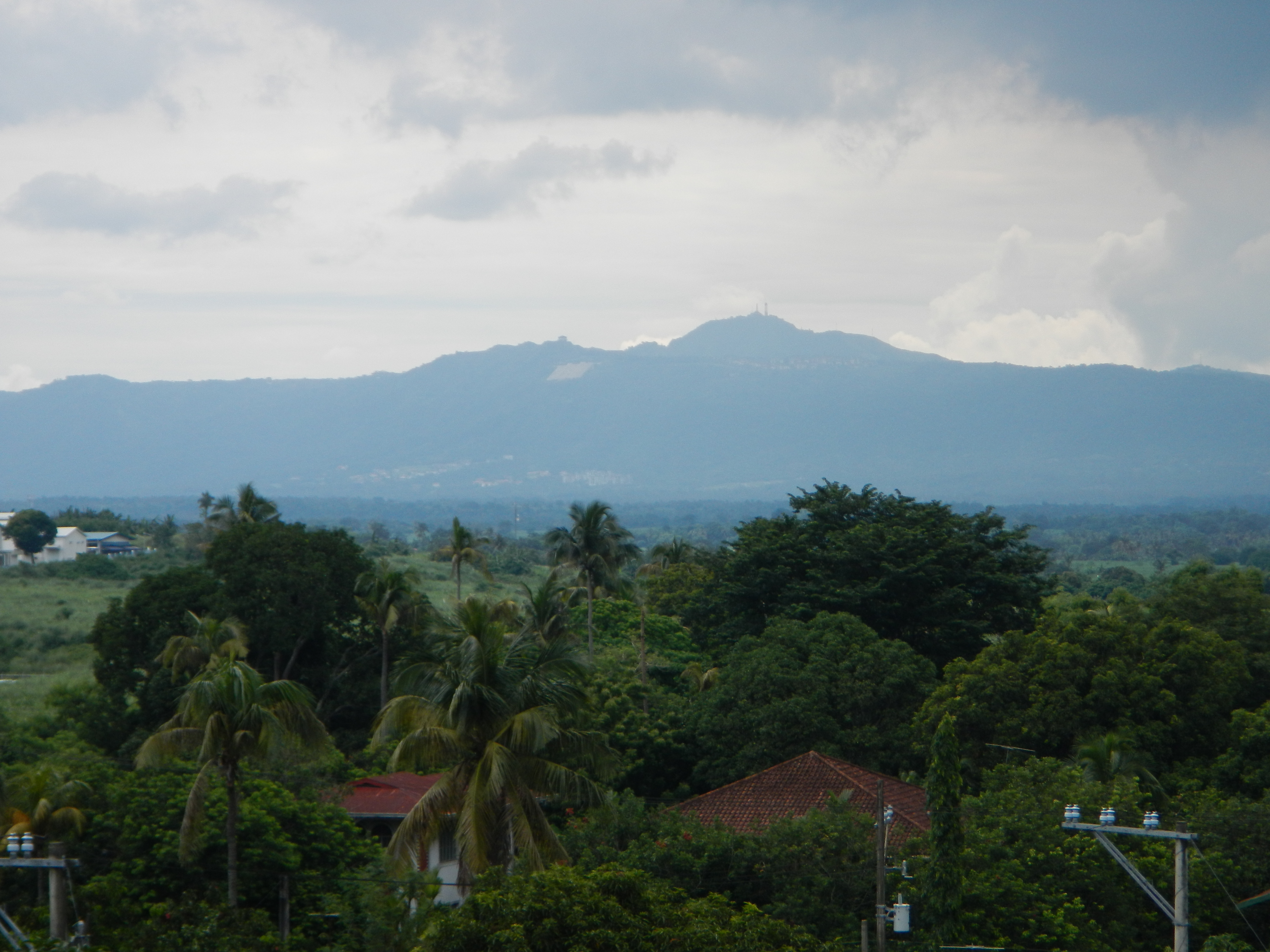 Sto.Tomas Municipal[1] Hall Coordinates: 14°6'38"N 121°8'32"E & Miguel Malvar[2] beside and in front of the Shrine in the Town Hall of Santo Tomas[3] Miguel Malvar Museum and Library: Of Battles and Surrender – Sto. Tomas, Batangas, Philippines [4] Miguel Malvar: The Story of the Great Batangueño General -- Located in the compound of the Sto. Tomas municipal hall is the Miguel Malvar Historical Landmark (MHL). The shrine (and public library) is under the National Historical Commission of the Philippines.[5] [6] Gen. Miguel Malvar Park Coordinates: 14°6'37"N 121°8'33"E - List of Cultural Properties of the Philippines in CALABARZON [7] PH-40-0004 Miguel Malvar Monument 14°06′37″N 121°08′34″E Cultural [8] [9] Santo Tomas, Batangas[10] Website Santo Tomas (also spelled as Sto. Tomas) is a first class municipality in the province of Batangas,[11] Philippines. According to the 2010 census, it has a population of 123,668 people. The town is a gateway to the province from Laguna hometown of Philippine Revolution and Philippine-American War hero Miguel Malvar.[12] The patron of Santo Tomas is Saint Thomas Aquinas,[13] patron of Catholic schools celebrates his feast day every 7 March.Election Results 2013 Santo Tomas mayoral bet Edna Sanchez accused of vote-buying [14] Coordinates: 14°3'44"N 121°10'24"E Geographical location: Batangas, Region 4, Philippines, Asia Geographical coordinates: 14° 6' 33" North, 121° 8' 31" East This place is situated in Batangas, Region 4, Philippines, its geographical coordinates are 14° 6' 33" North, 121° 8' 31" East and its original name (with diacritics) is Santo Tomas. [15]